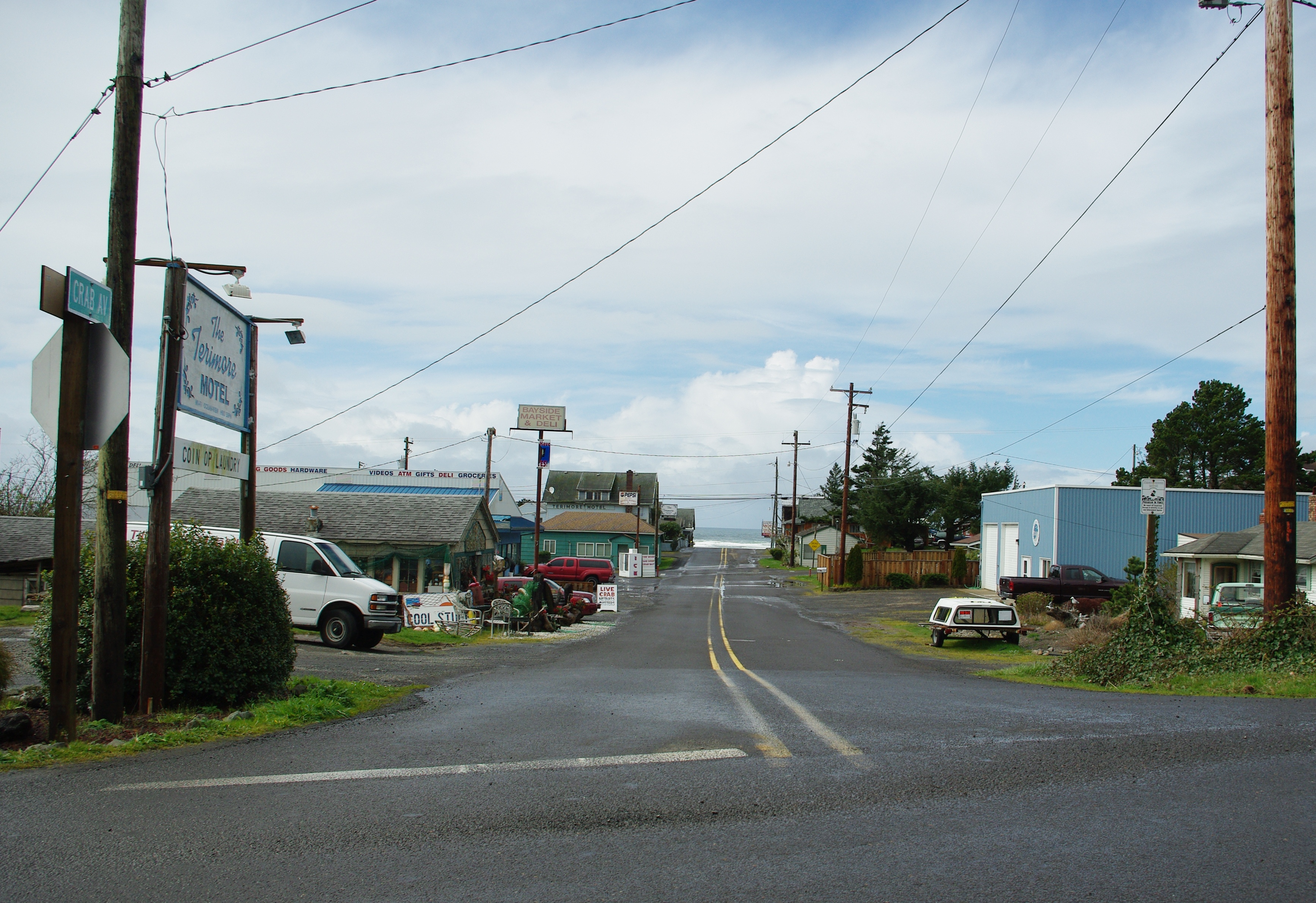 Street in the unincorporated community of Netarts, Oregon, from OR 131 looking west to the Pacific Ocean.